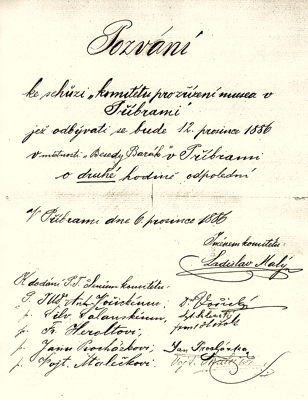 Invitation to a meeting of committee for founding of museum in Czech city of Příbram